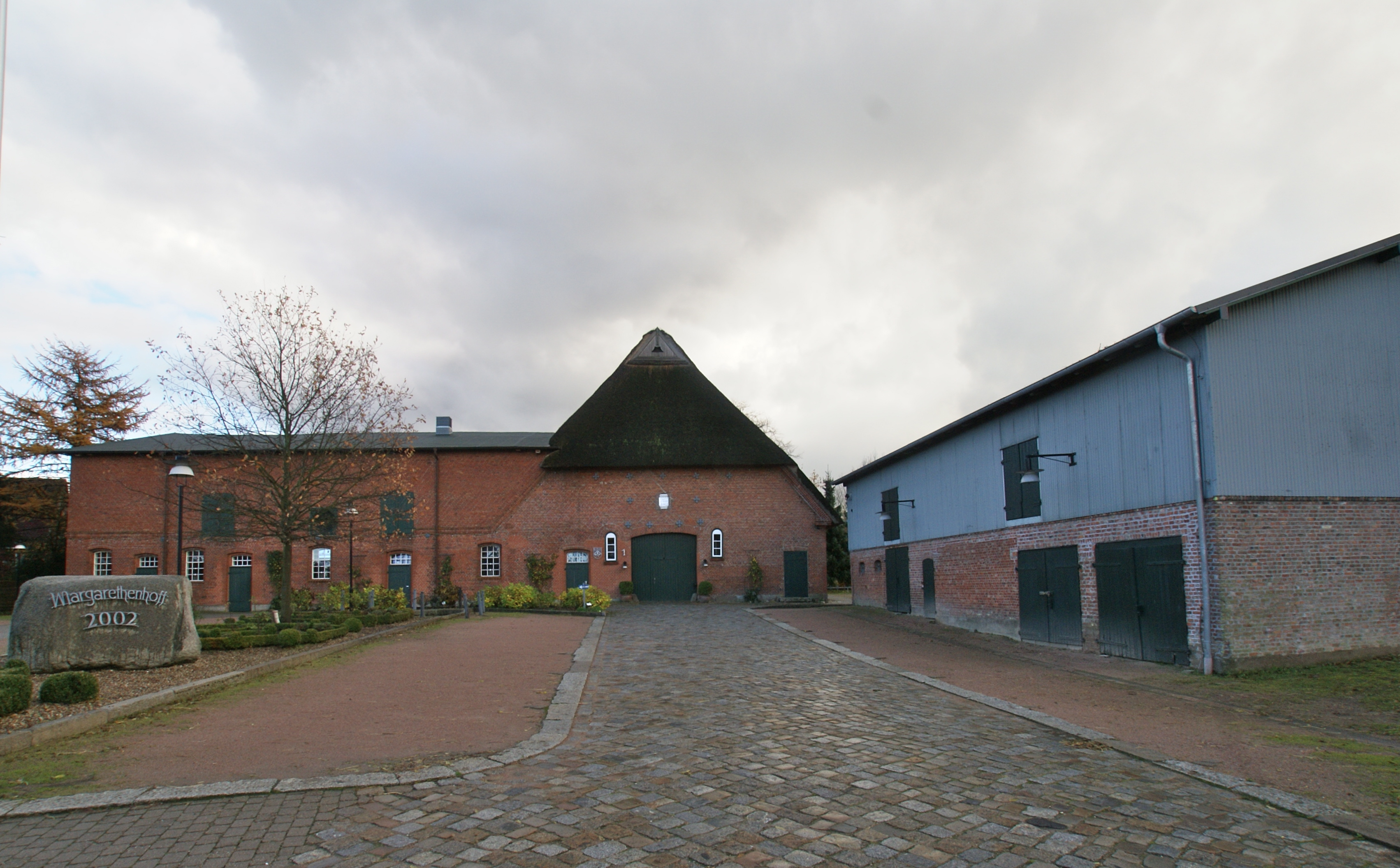 Kisdorf, Germany: Town house Margarethenhoff